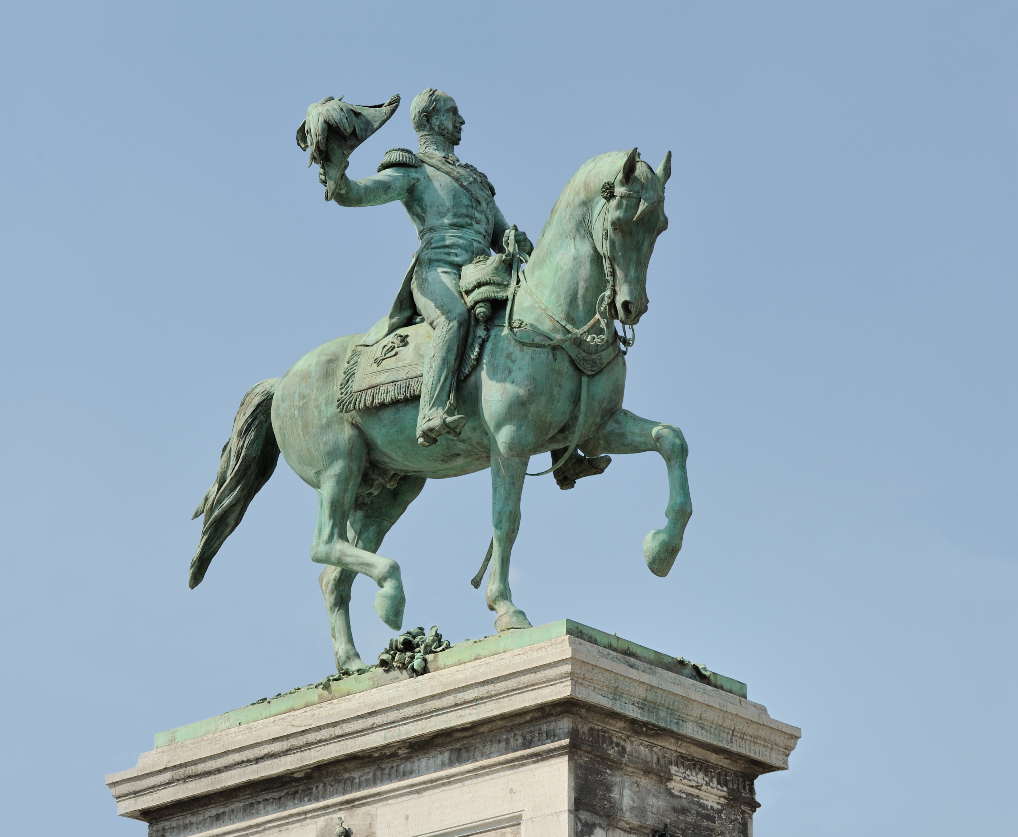 Luxembourg City, square Guillaume II: equestrian statue of Guillaume II (1792-1849), king of The Netherlands and Grand-Duke of Luxembourg.